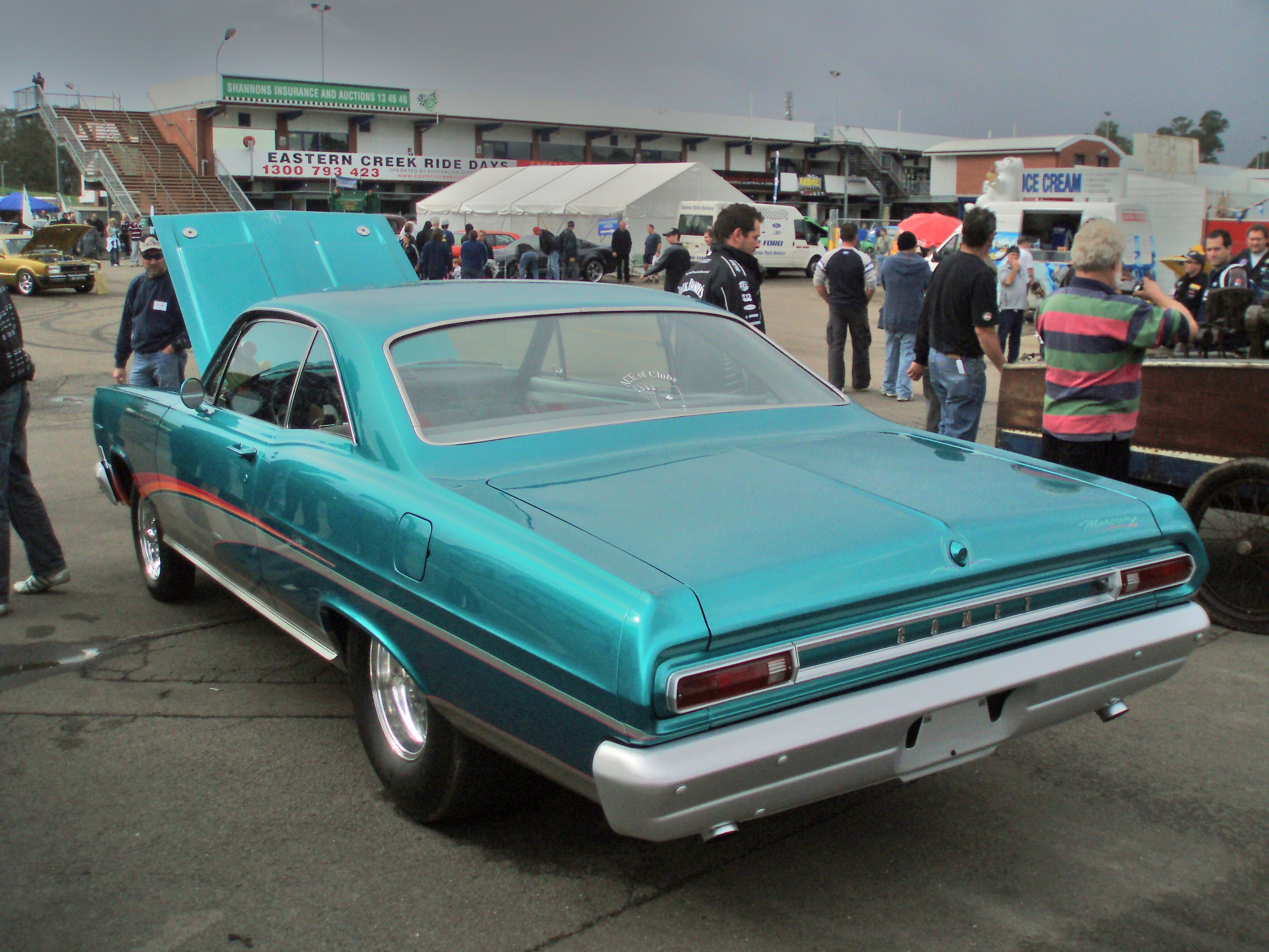 1966 Mercury Comet coupe. Taken at the New South Wales All Ford Day 2009, held at Eastern Creek Raceway Sydney.